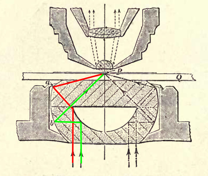 Condenser for a dark field microscope. Red and green lines were added to the historical image by the uploader to better visualize the beampath